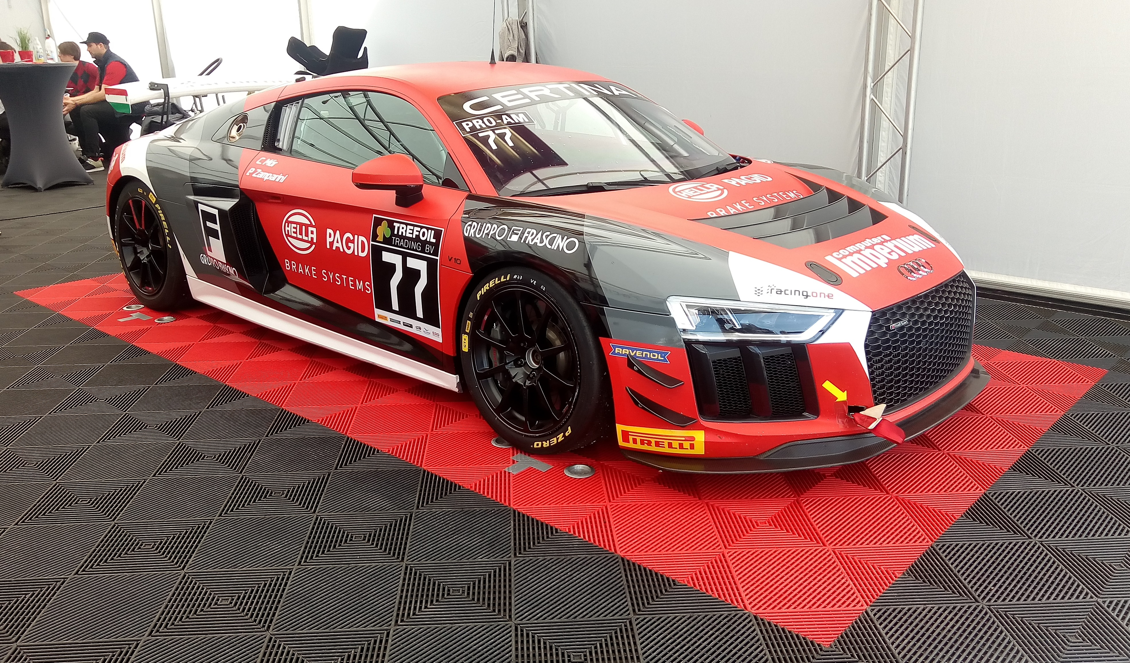 The Audi R8 LMS GT4 as raced by Csaba Mór and Patrick Zamparini.